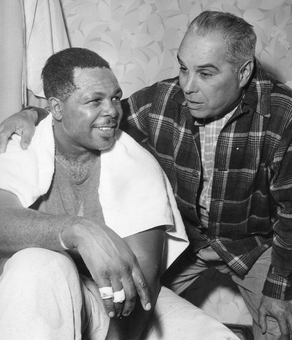 Archie Moore & Onyx Roach 1956 Press Wire Photo Champion Boxer